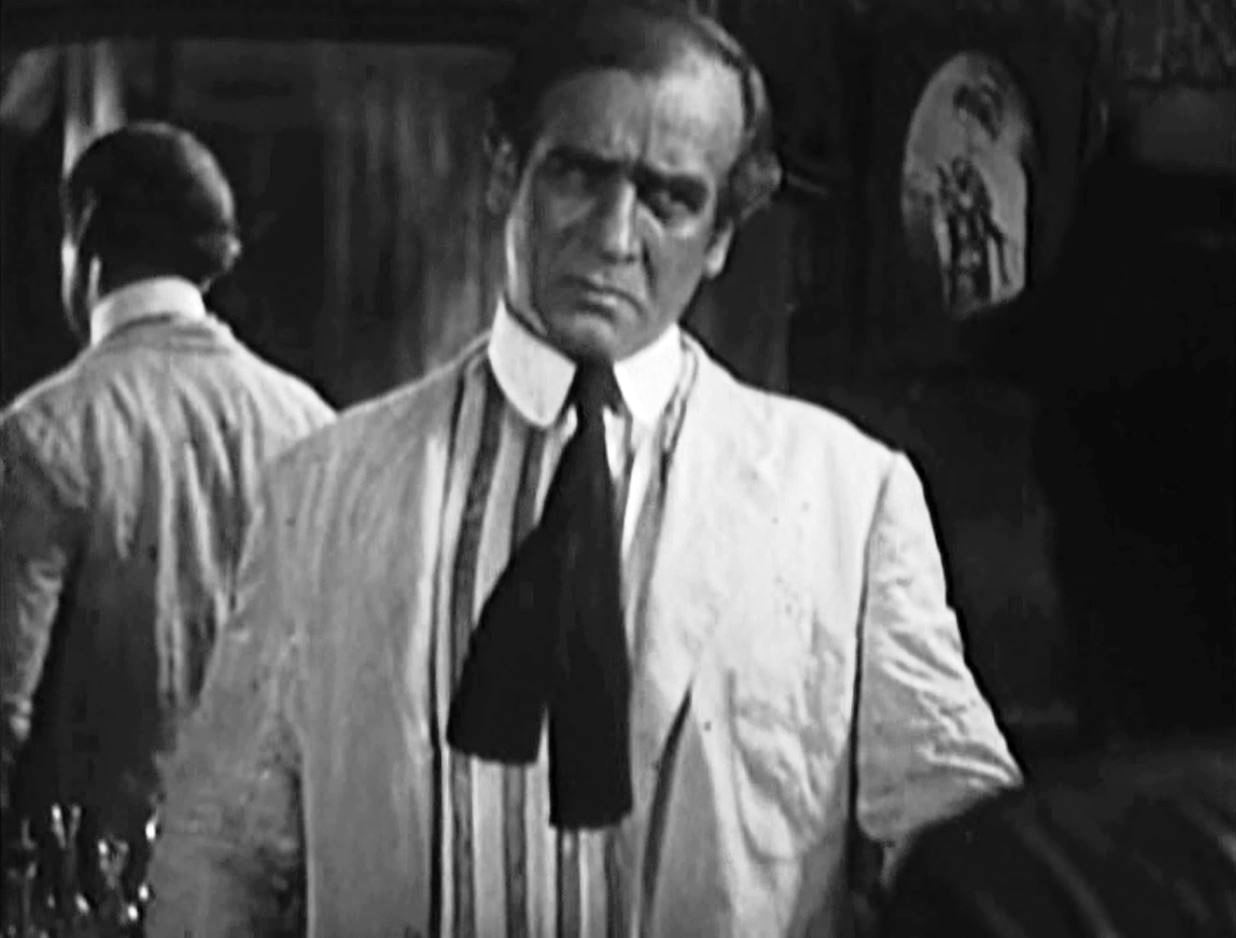 Low resolution screenshot of Tom Santschi as Dutch Mike Lutze (also in the mirror) from the American public domain film Paradise Island (1930).